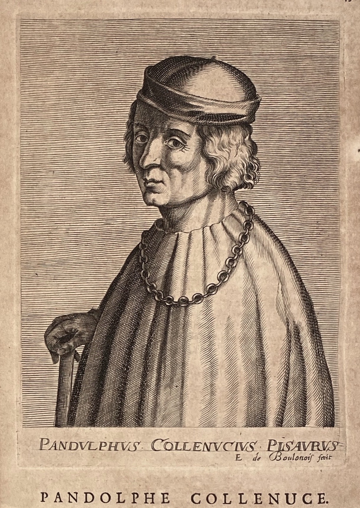 Half-length portrait of Pandolfo Collenuccio, Italian historian, facing to the left. Engraved by Esme de Boulonois. Isaac Bullart. Académie Des Sciences Et Des Arts. - Amsterdam: Elzevier, 1682